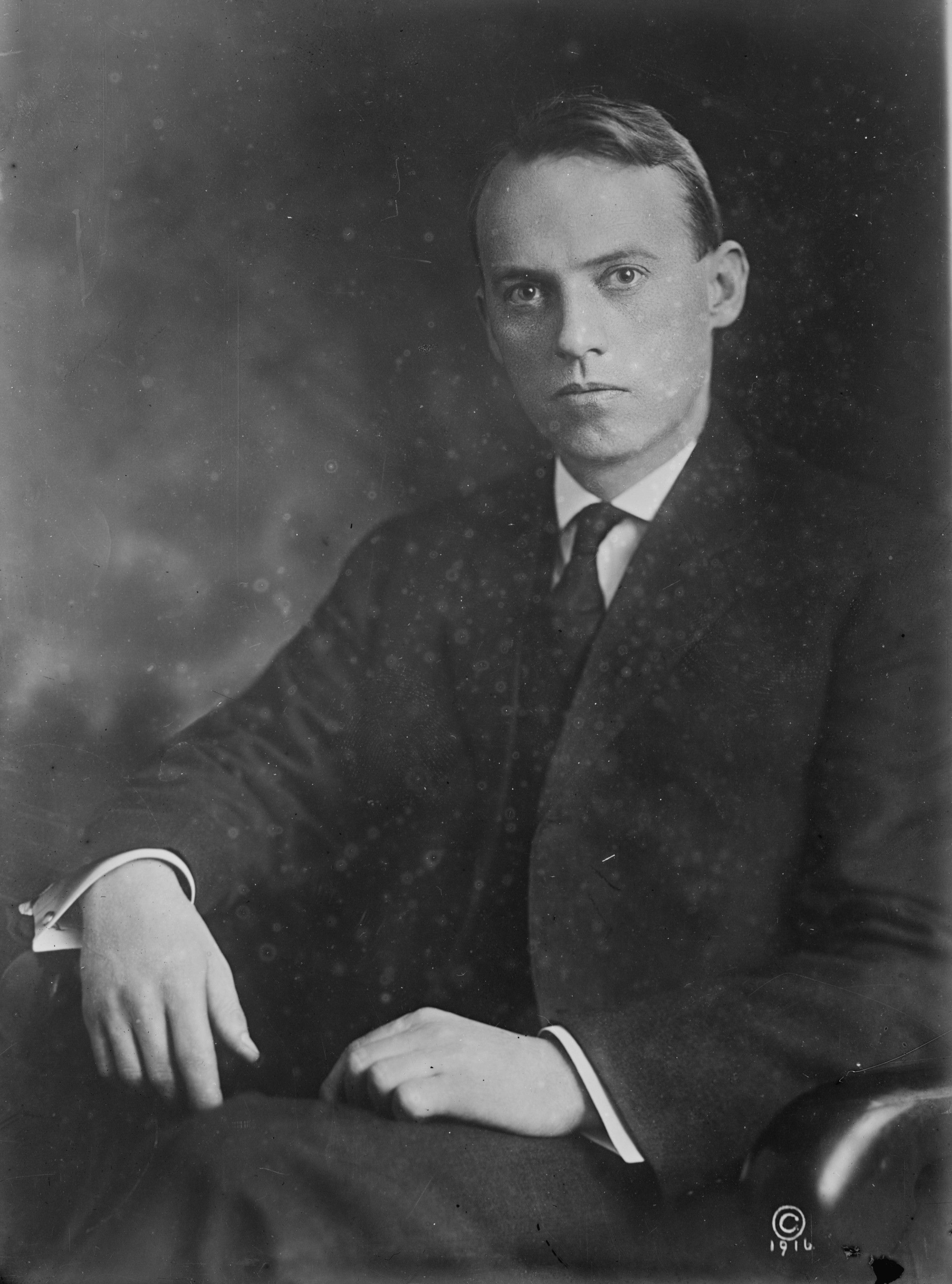 Scott Nearing